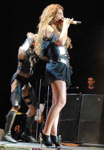 Elena Paparizou performing on the launch of the Fisika Mazi tour on 29 June 2010 at Theatro Petras in Athens.